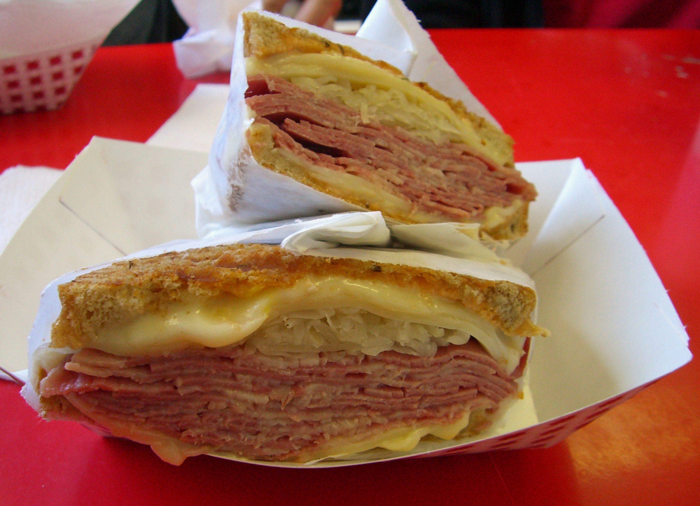 A Reuben sandwich at the Civic Center in San Francisco.